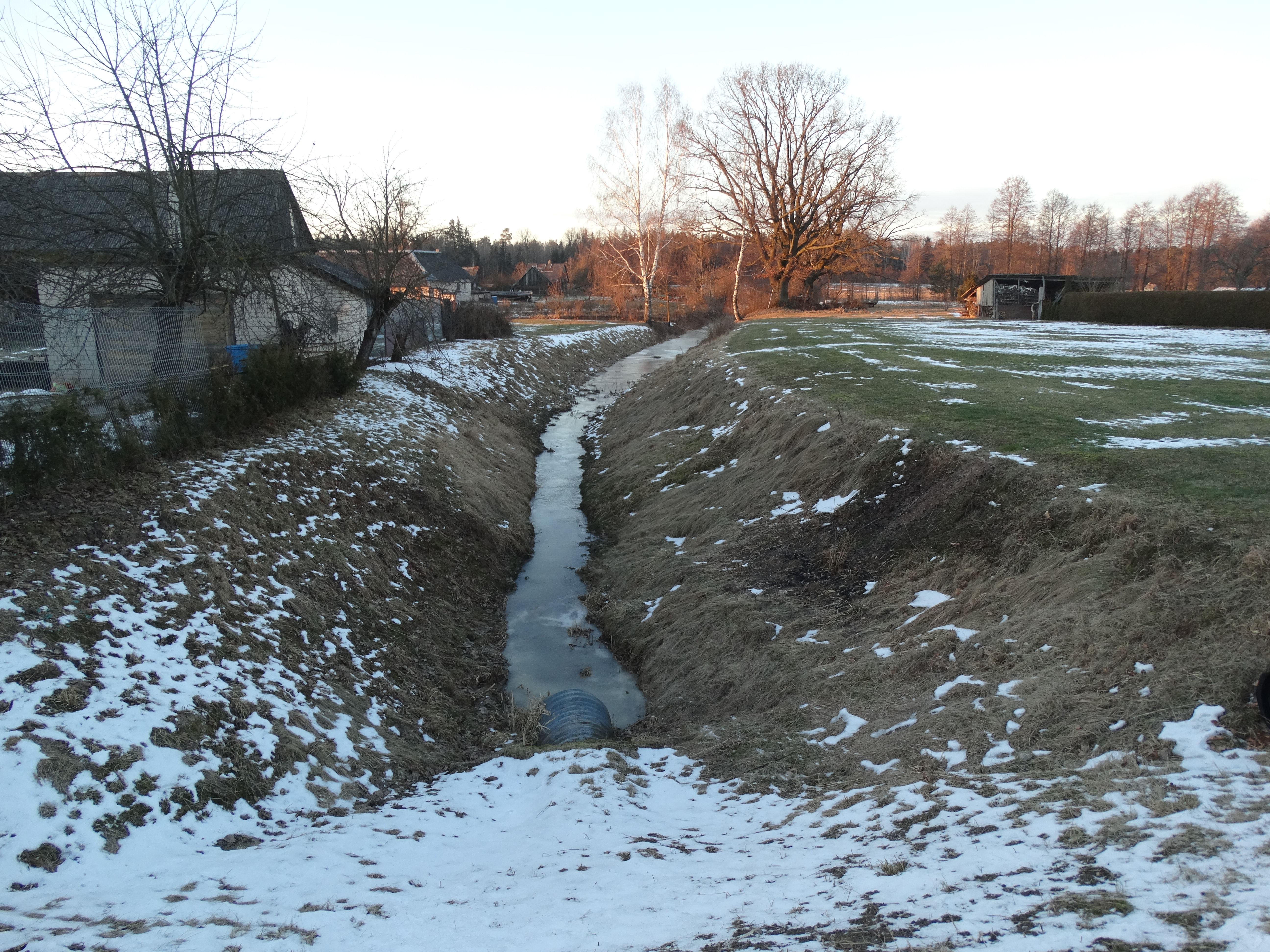 Žigla stream, Viršužiglis, Kaunas District, Lithuania